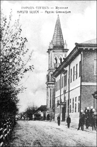 The post card represents a grammar school building in the city of Slutsk.